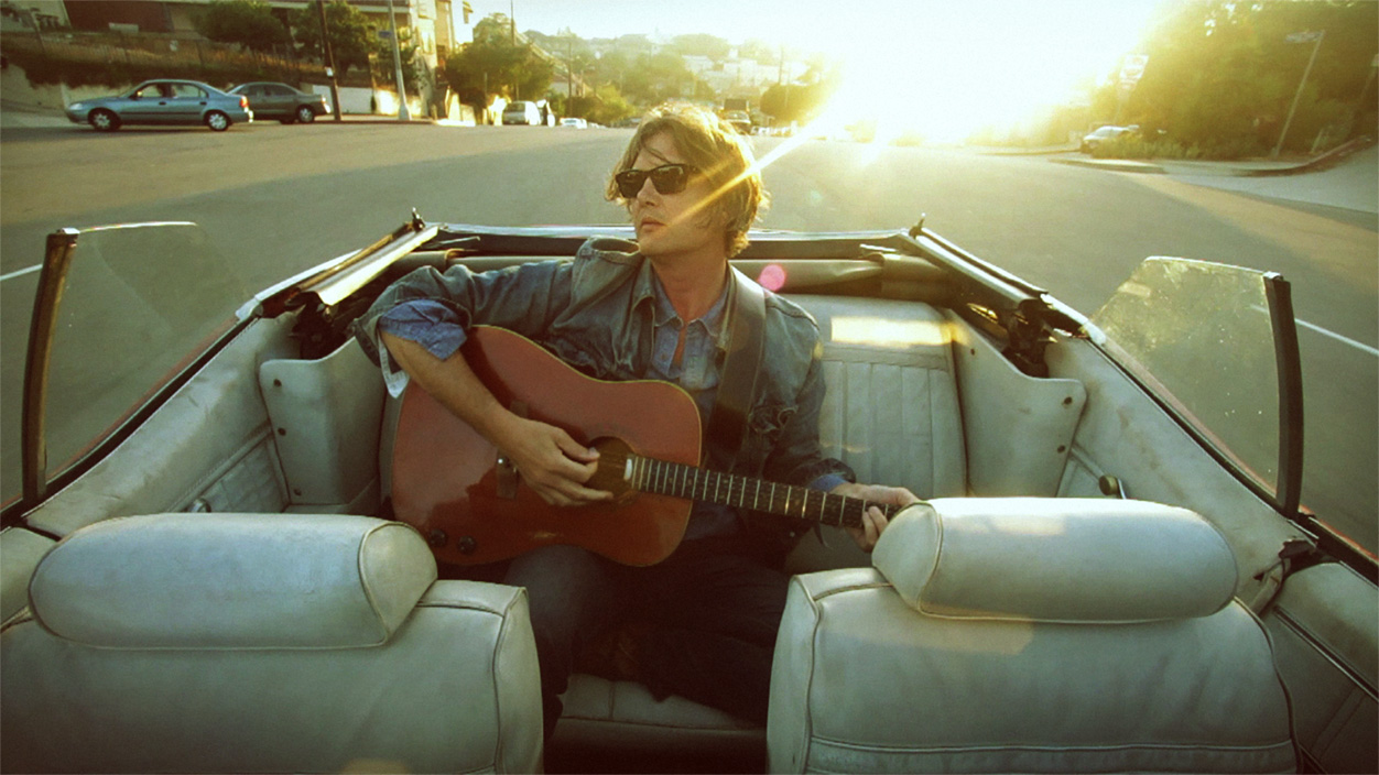 Singer/Songwriter Matt Ellis on set of the "Thank You Los Angeles" music video.